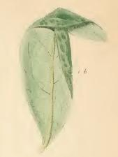 Stainton’s Natural History of the Tineina (1855–1873): Phyllonorycter trifasciella mined honeysuckle leaf